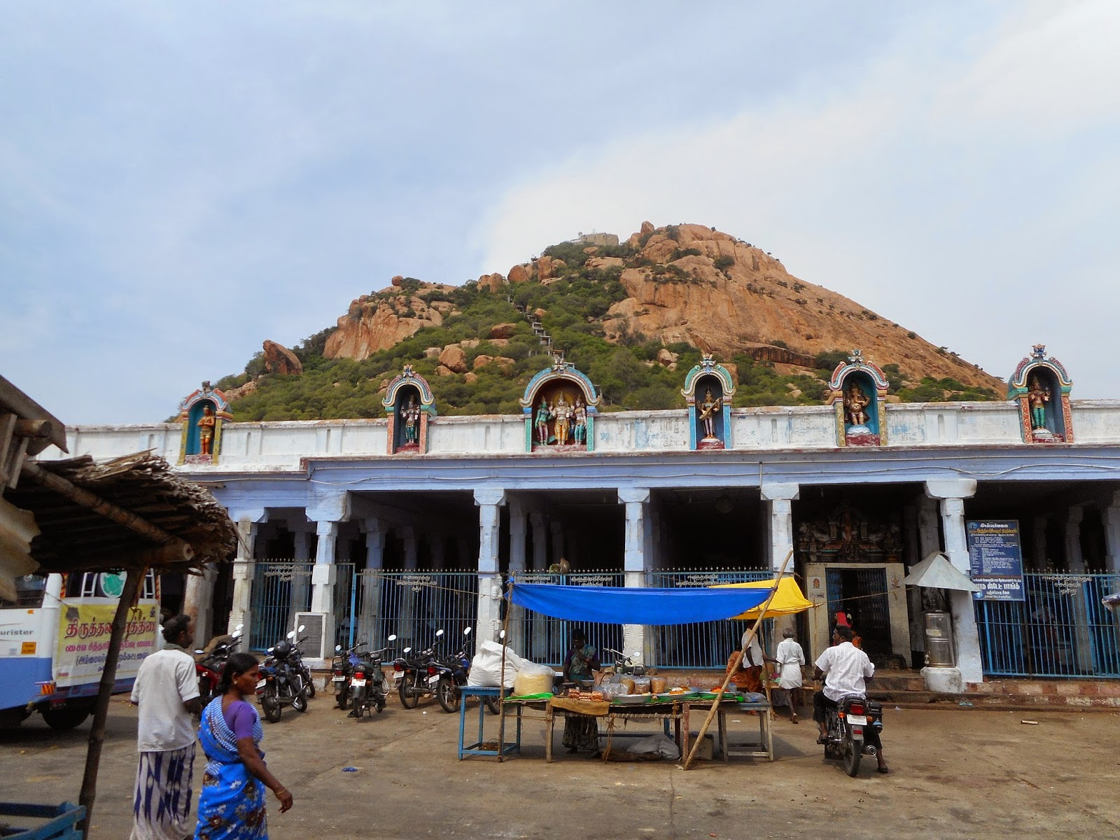 Ayyarmalai2 அய்யர்மலை அடிவாரம்